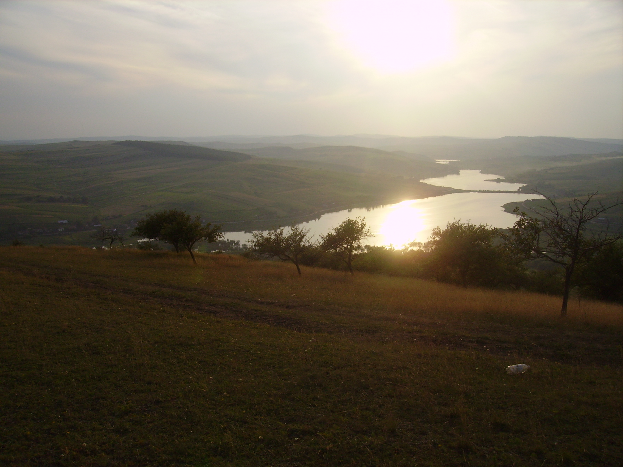 Catina Lake in Cluj County, Romania